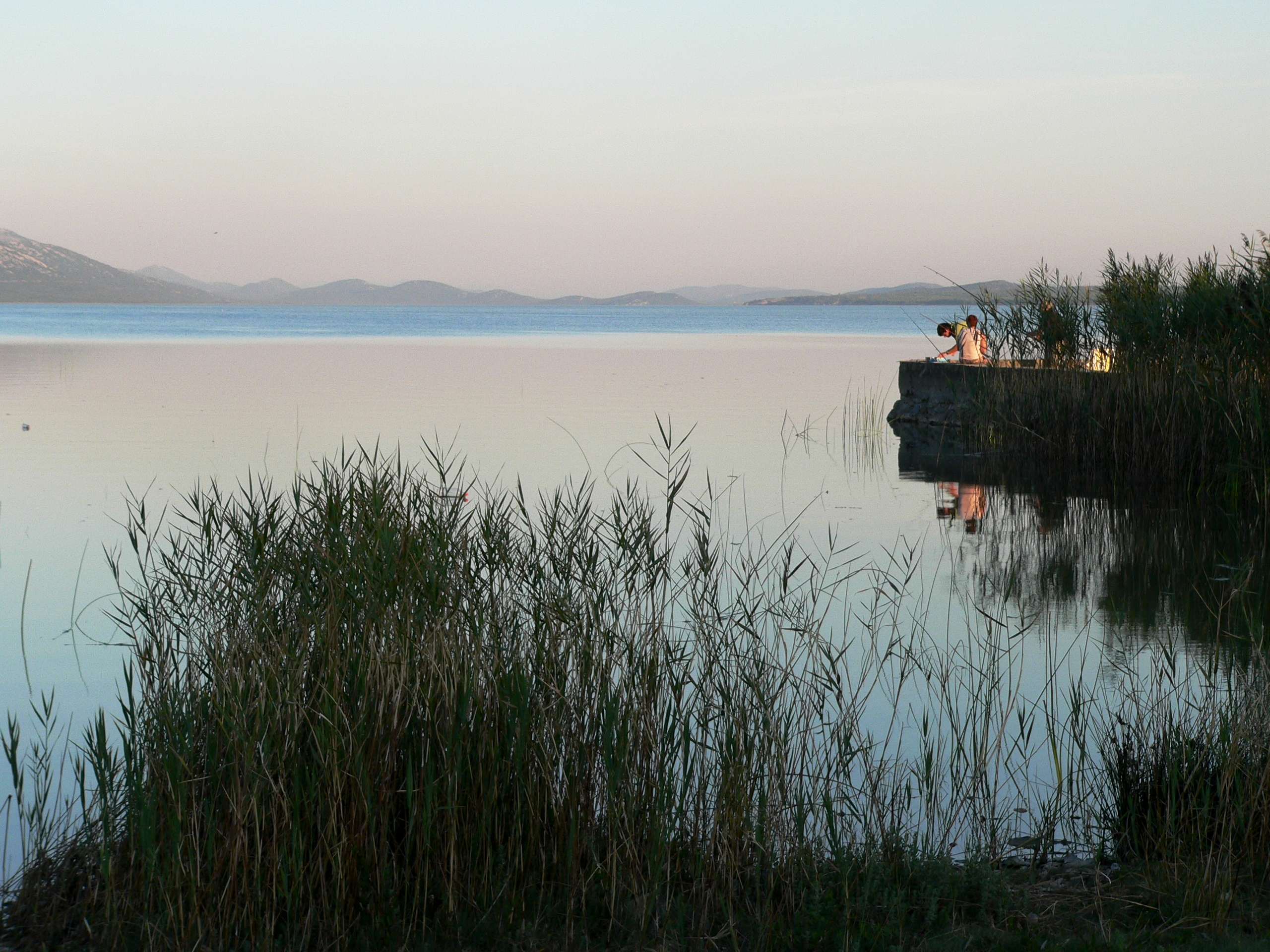 Lake Vrana near Biograd, Croatia